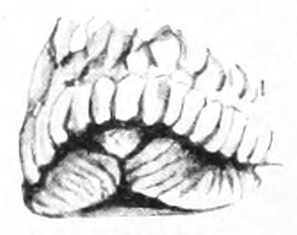 Drawing of caudal end of the body of Geomalacus maculosus showing supra-pedal grooves and caudal mucous pit. Ethanol preserved specimen.